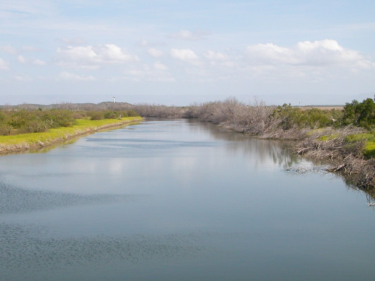 The Guantanamo river. Camainera City in the background. Guantanamo Bay, Cuba. 2003